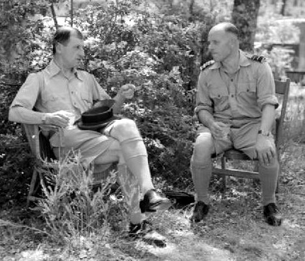 Photograph of Air Chief Marshal Sir Charles Portal, Chief of the Air Staff, in conversation with the Air Officer Commanding the Desert Air Force, Air Vice-Marshal Dickson, at the DAF Advanced Headquarters near Monteriggioni, Italy.